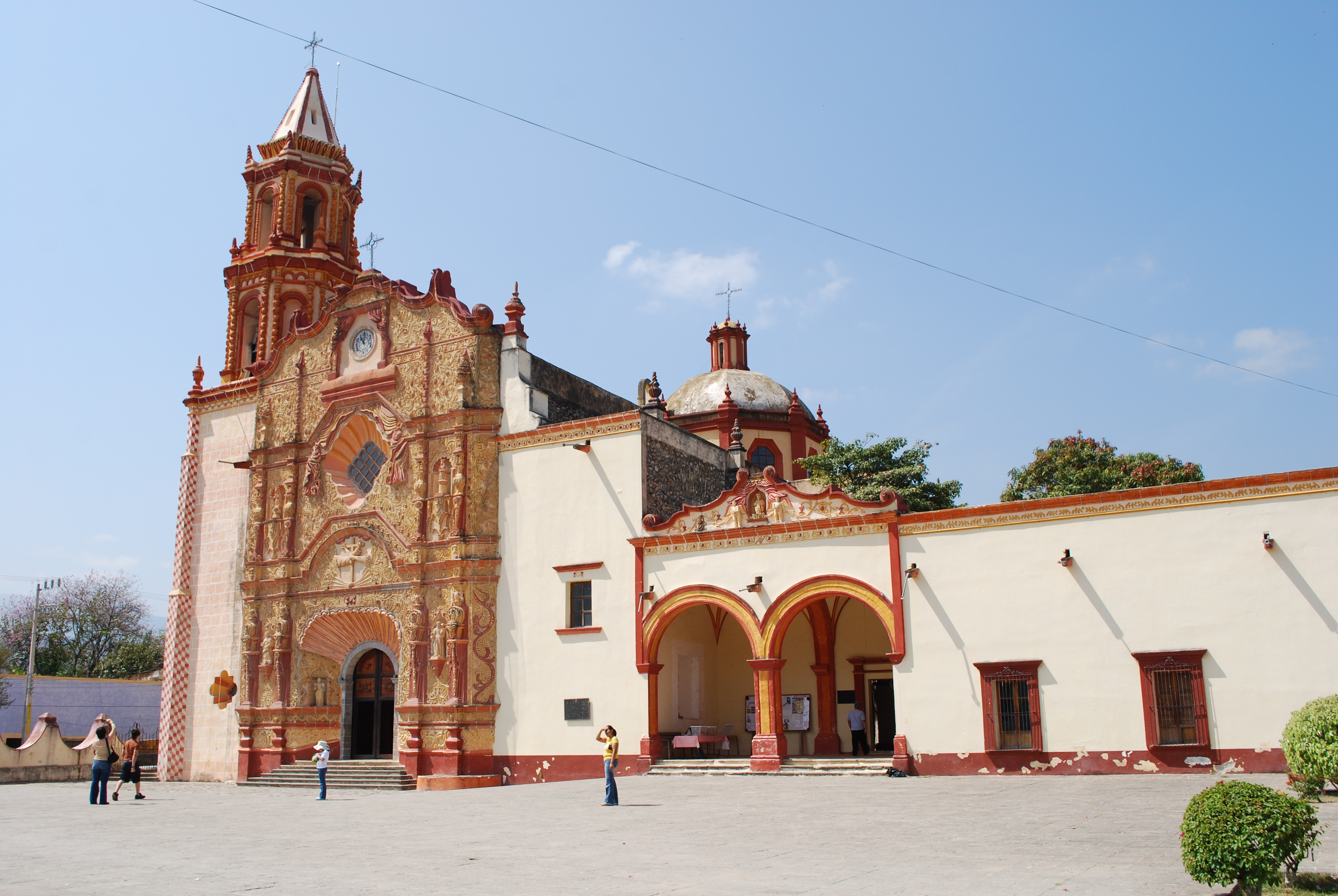 Facade of the mission in Jalpan de Serra, Querétaro, Mexico